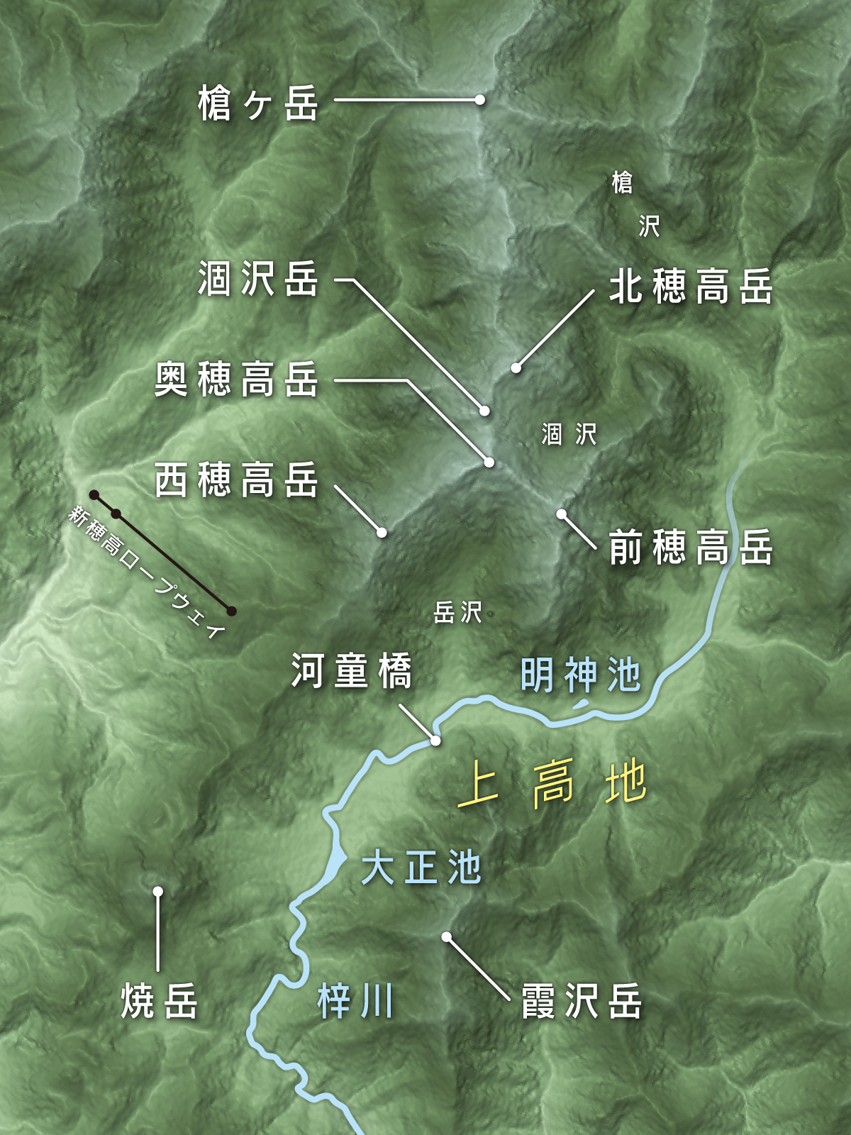 Kamikōchi in Hida Mountains, Nagano Prefecture, Honshu, Japan.